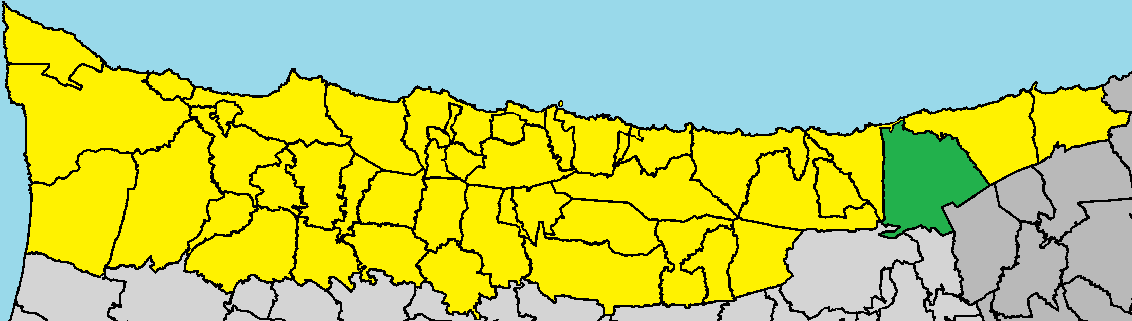 Charkeia in Kyrenia District (de jure).